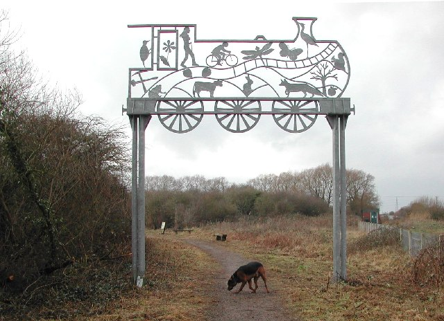 The start of the Strawberry Line. For almost a century, the 'Strawberry line' carried fruit and passengers from Cheddar over the Mendips and across the Somerset Levels to join the main line at Yatton. Today it has been transformed into a cycle route and footpath which follows the old railway line. This part is maintained by the Yatton & Congresbury Wildlife Action Group For a leaflet on the line go to